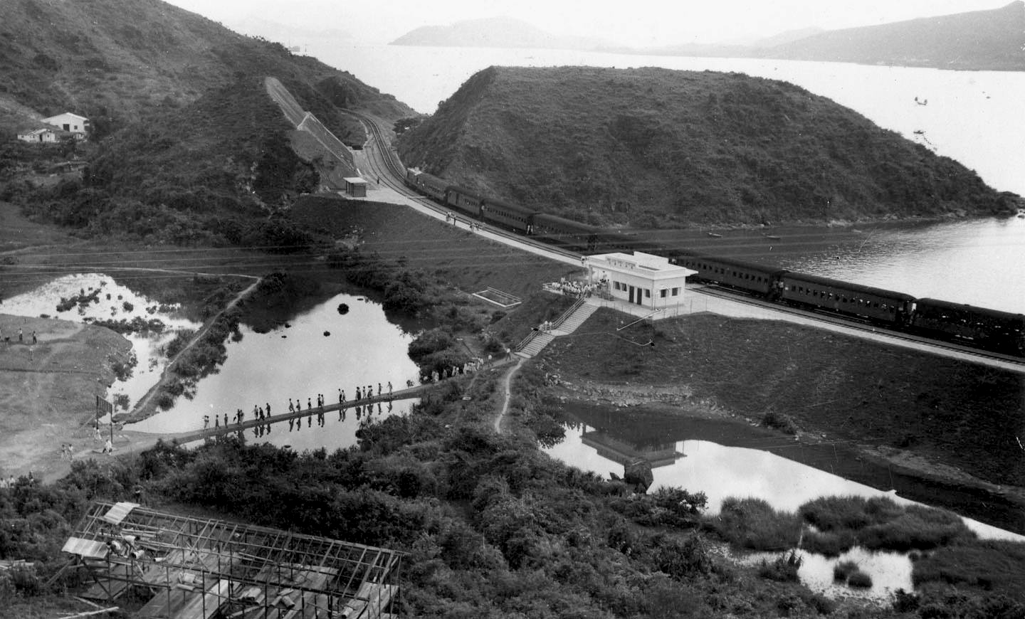 Ma Liu Shui Station in 1956